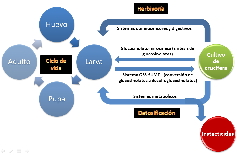 Herbivory and detoxification in Plutella xylostella lifecicle (egg, larva - 4 instars -, pupa and adult). It feeds of cruciferous plants and has evolved to detoxify host plants defense compounds, an adaptation that enabled it to become resisant to instecticides.